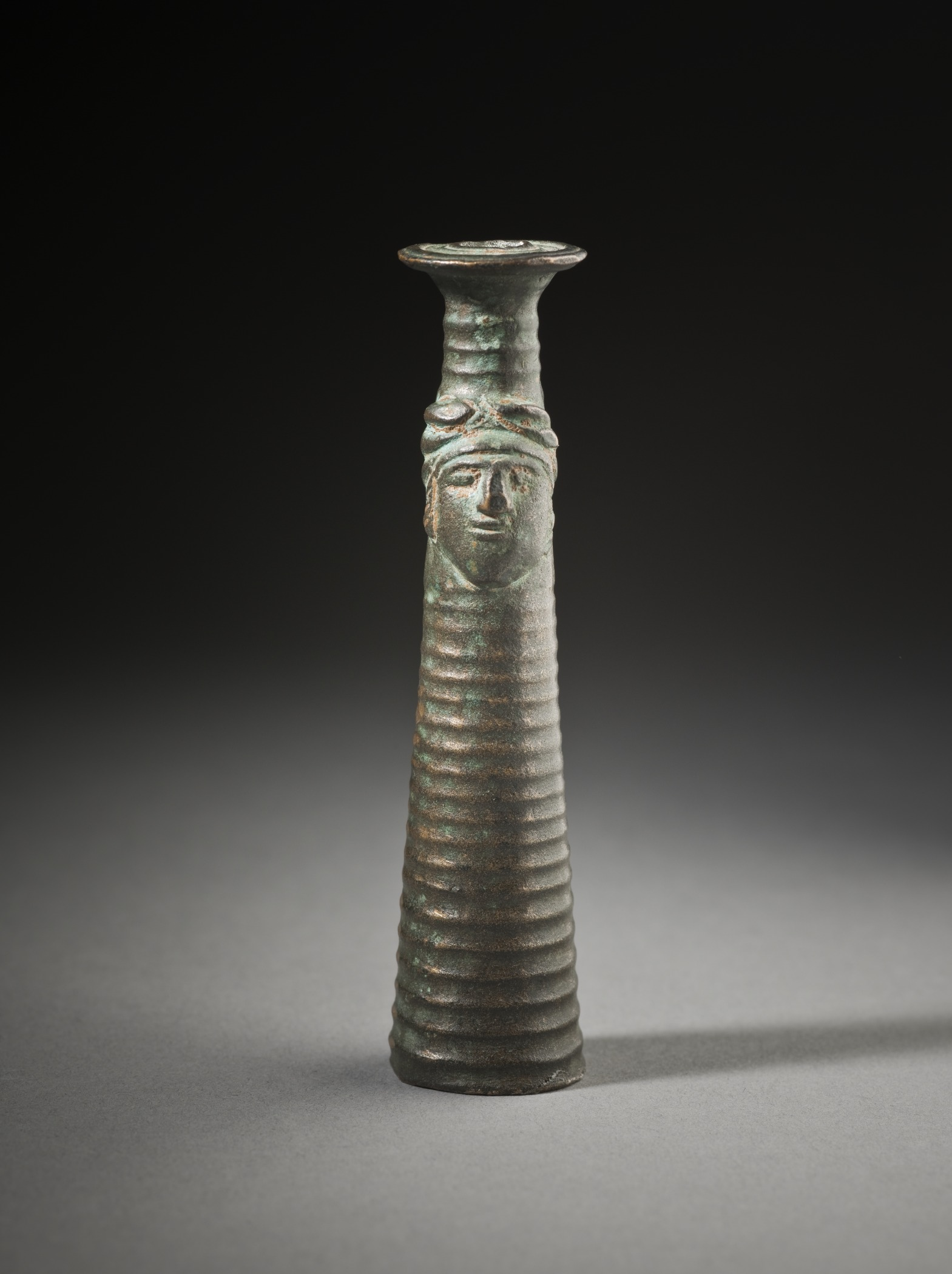 Western Iran, Luristan bronzes, about 800-500 BC Tools and Equipment; containers Bronze 3 1/2 x 3/4 in. (8.9 x 2 cm) The Nasli M. Heeramaneck Collection of Ancient Near Eastern and Central Asian Art, gift of The Ahmanson Foundation (M.76.97.81) Art of the Ancient Near East